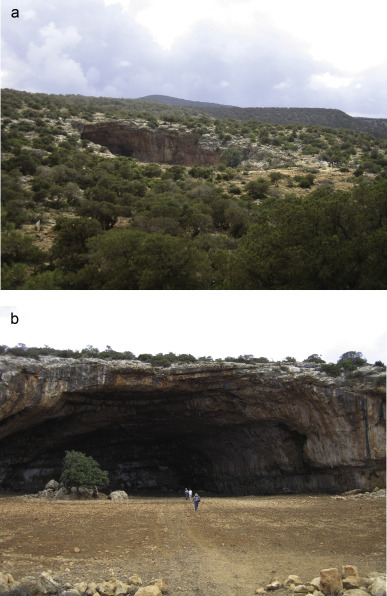 The Haua Fteah cave: (a) looking southwest up to the cave from the coastal plain and (b) looking south across the doline floor into the cave; the standing figures indicate the scale of the cave mouth, which is ∼50 m wide and ∼20 m high (Photographs: G. Barker).